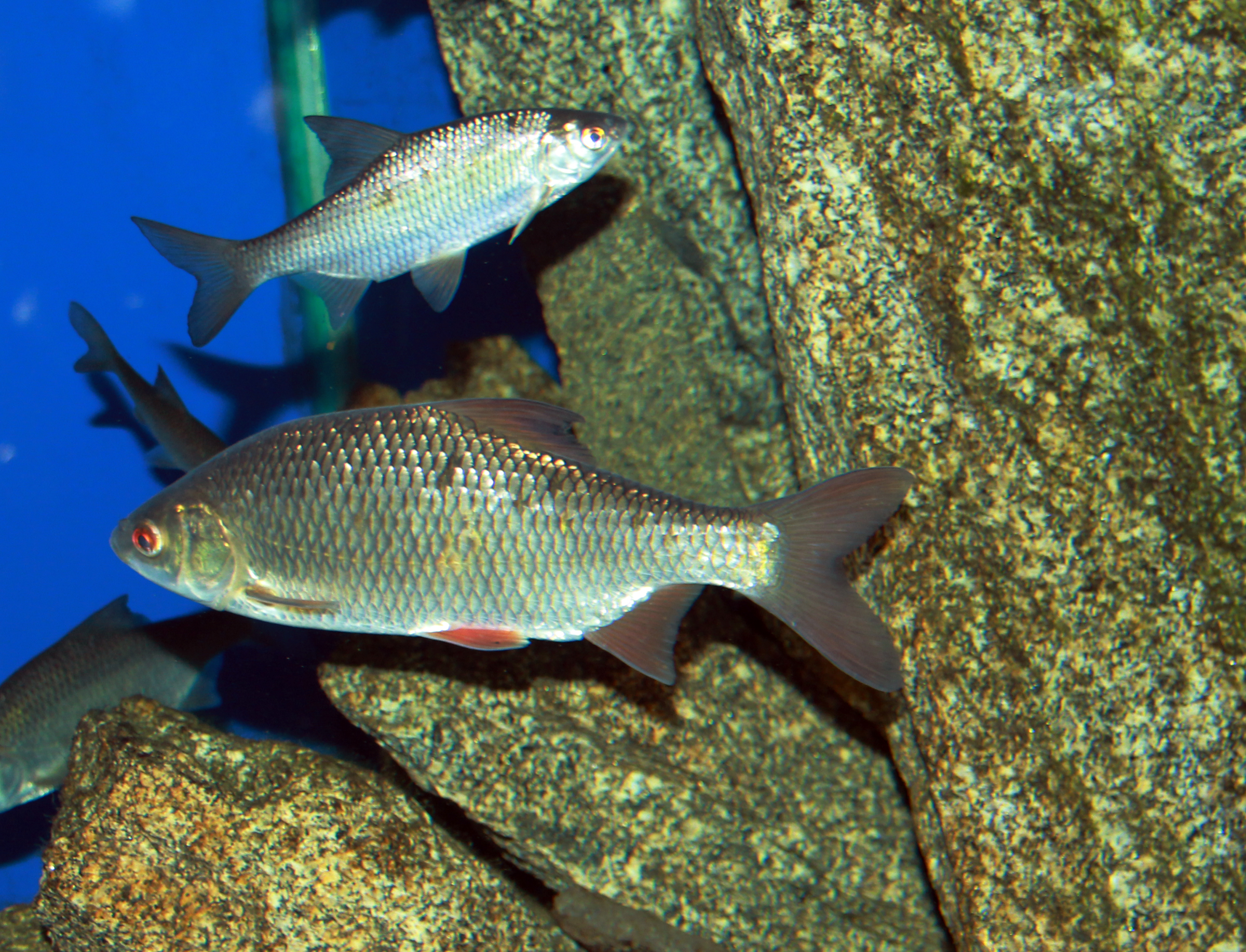 Common roach on exhibition Subaqueous Vltava, Prague 2011, Czech Republic